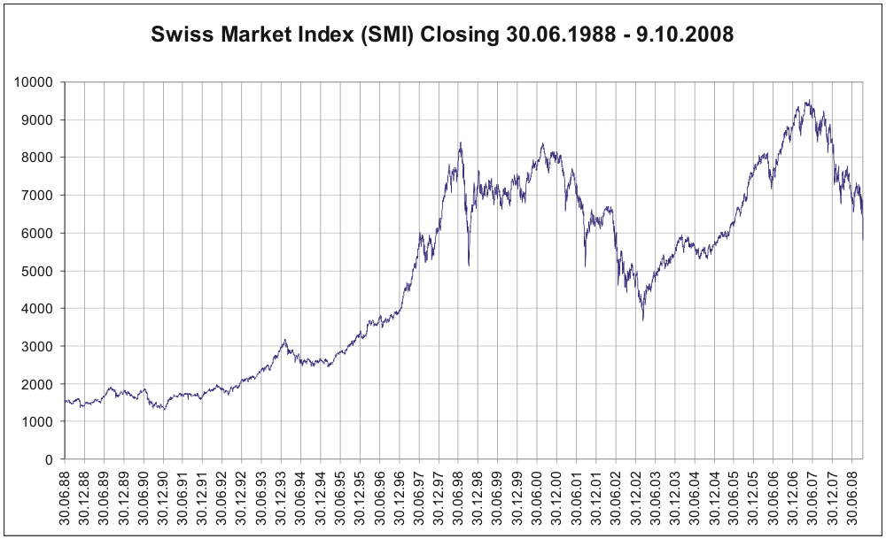 Swiss Market Index Close 30.06.1988 - 09.10.2008